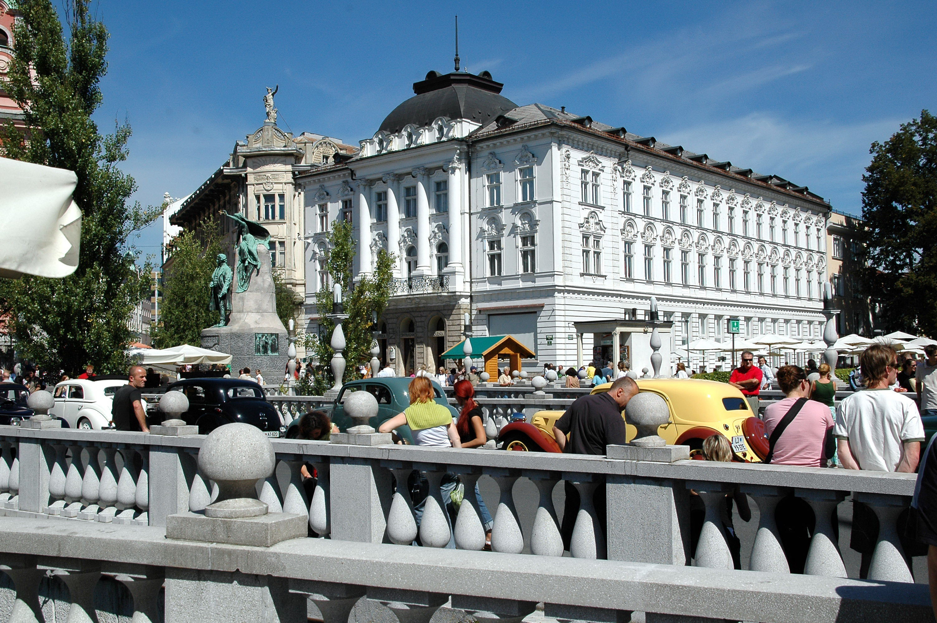 City-center of Ljubljana, Slovenija